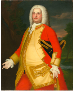 William Brattle by John Copley, Boston